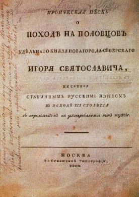 Fisrt edition of The Tale of Igor's Campaign from 1800